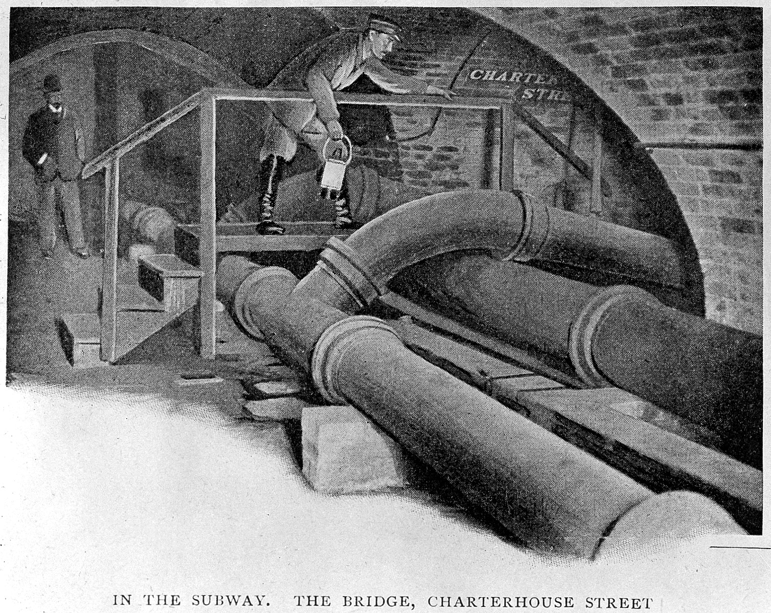 Sewage pipes under London General Collections Keywords: sewage: nineteenth century.